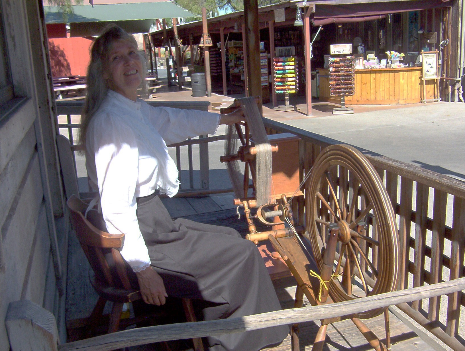 Spinning wheel and weasel